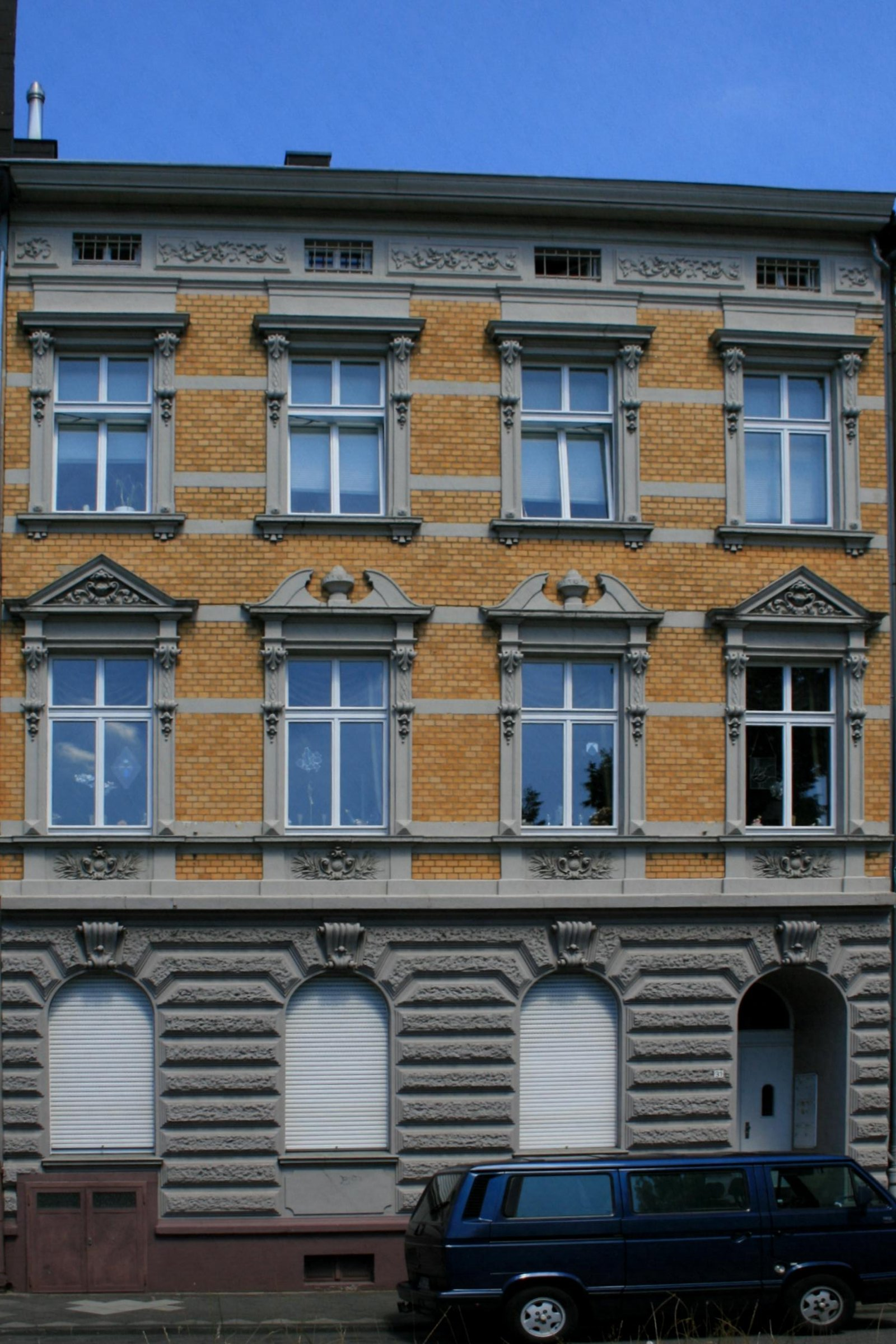 Cultural heritage monument No. M 033 in Mönchengladbach